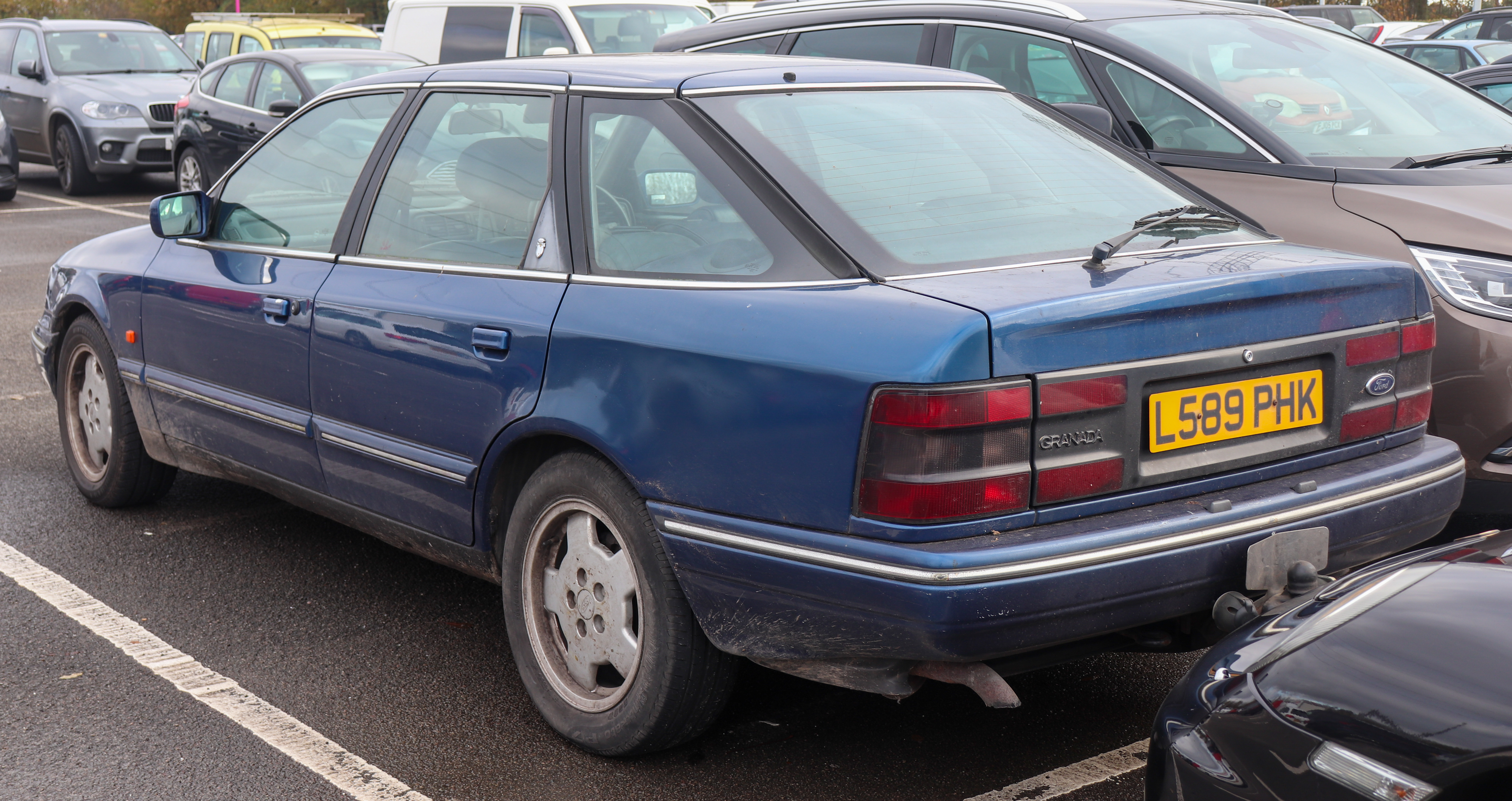 1994 Ford Granada Ghia Diesel Turbo 2.5 Rear Taken in the NEC Car Park, Birmingham